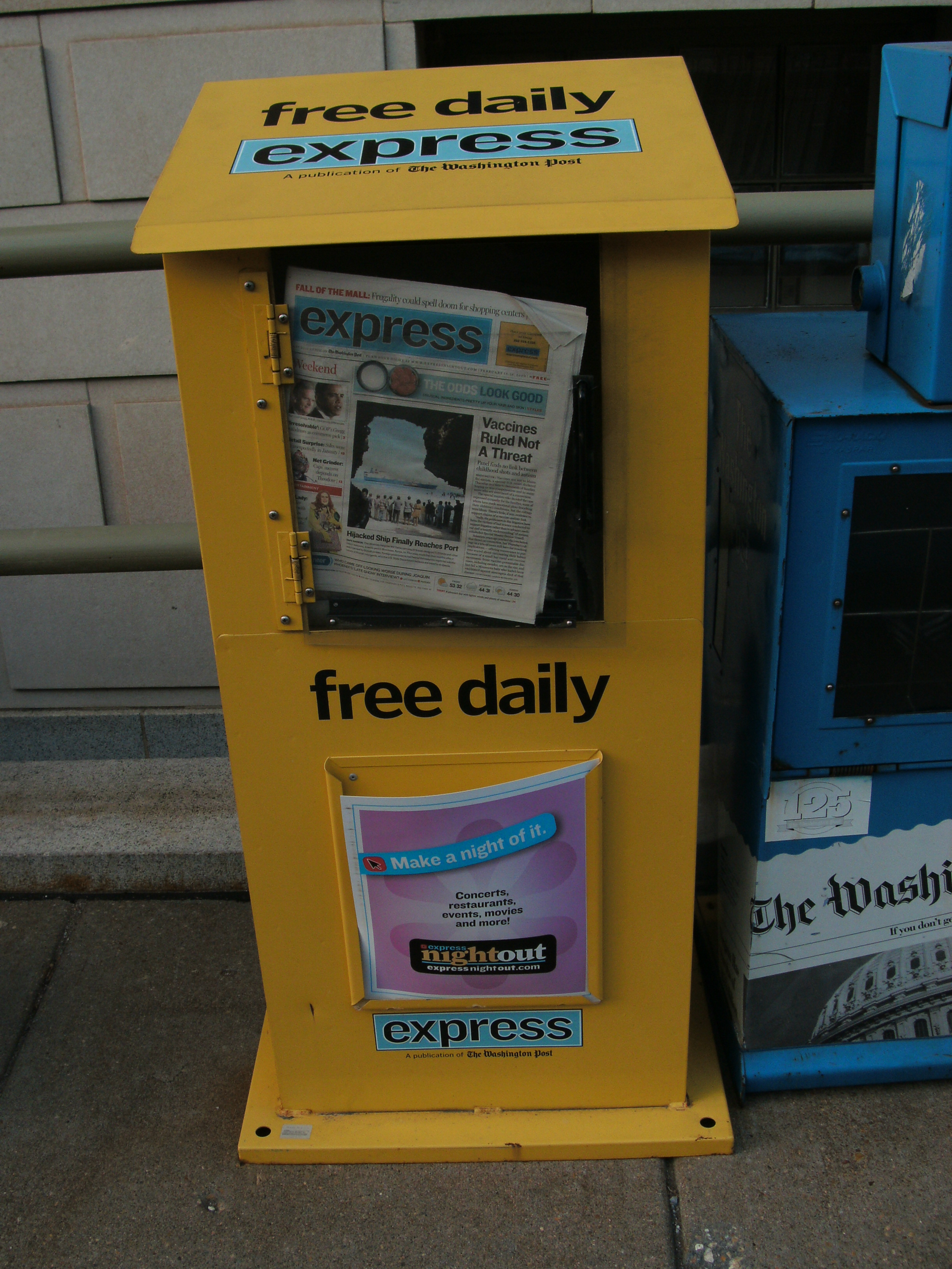 Image taken by me for Wikipedia